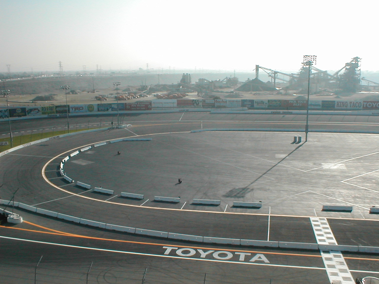 Irwindale Speedway in Irwindale, California, as photographed from the rooftop.